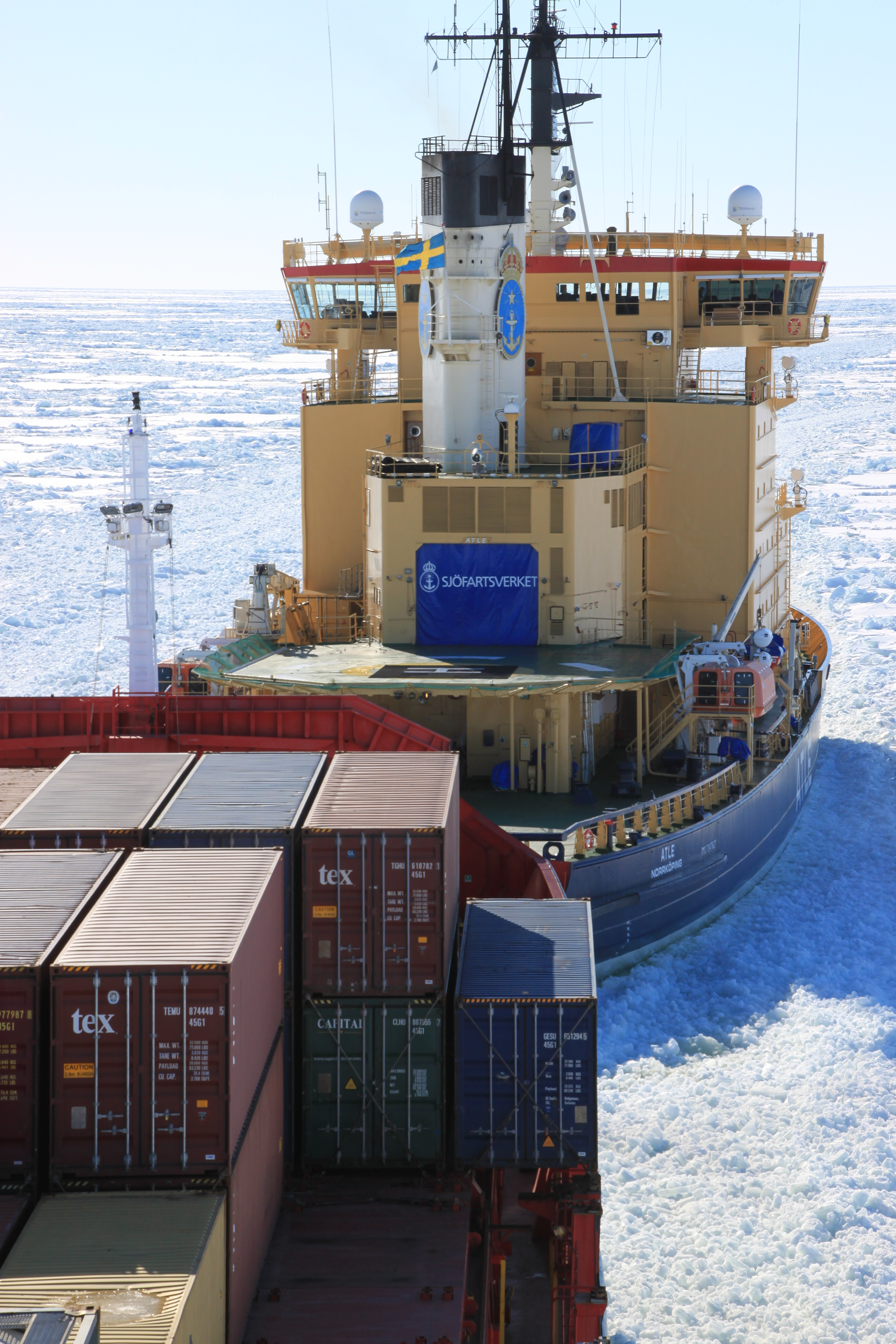 Icebreaker Atle in the ice